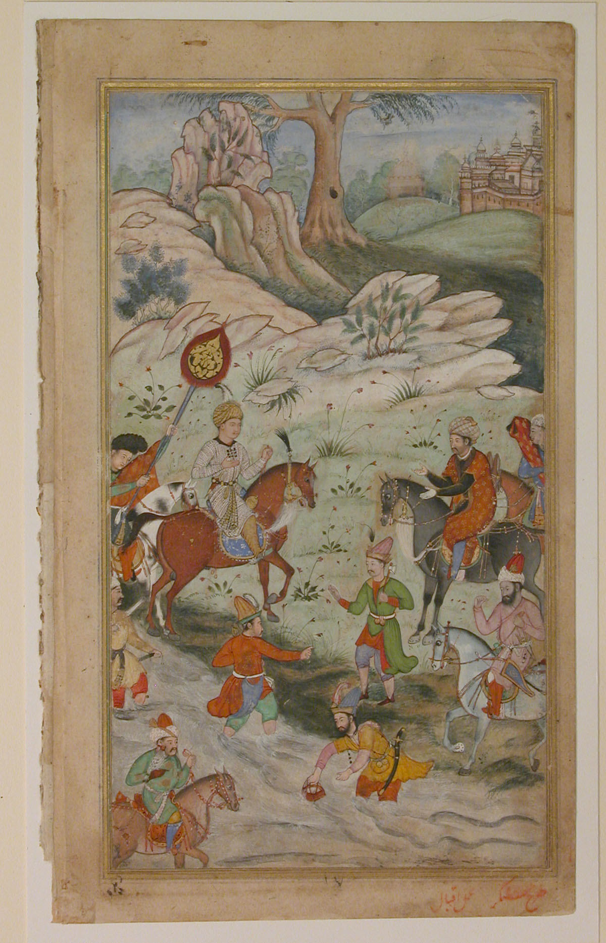 The "Memoirs of Babur" or Baburnama are the work of the great-great-great-grandson of Timur (Tamerlane), Zahiruddin Muhammad Babur (1483-1530). The Baburnama tells the tale of the prince's struggle first to assert and defend his claim to the throne of Samarkand and the region of the Fergana Valley. After being driven out of Samarkand in 1501 by the Uzbek Shaibanids, he ultimately sought greener pastures, first in Kabul and then in northern India, where his descendants were the Moghul (Mughal) dynasty ruling in Delhi until 1858. The miniatures are from an illustrated copy of the Baburnama prepared for the author's grandson, the Mughal Emperor Akbar. It is worth remembering that the miniatures reflect the culture of the court at Delhi; hence, for example, the architecture of Central Asian cities resembles the architecture of Mughal India. Nonetheless, these illustrations are important as evidence of the tradition of exquisite miniature painting which developed at the court of Timur and his successors. Timurid miniatures are among the greatest artistic achievements of the Islamic world in the fifteenth and sixteenth centuries. Illustrations of Mughals from the Baburnama